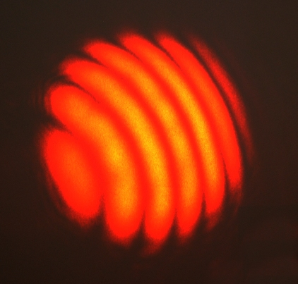 interference pattern of a HeNe-laser (633nm) at a Michelson Interferometer